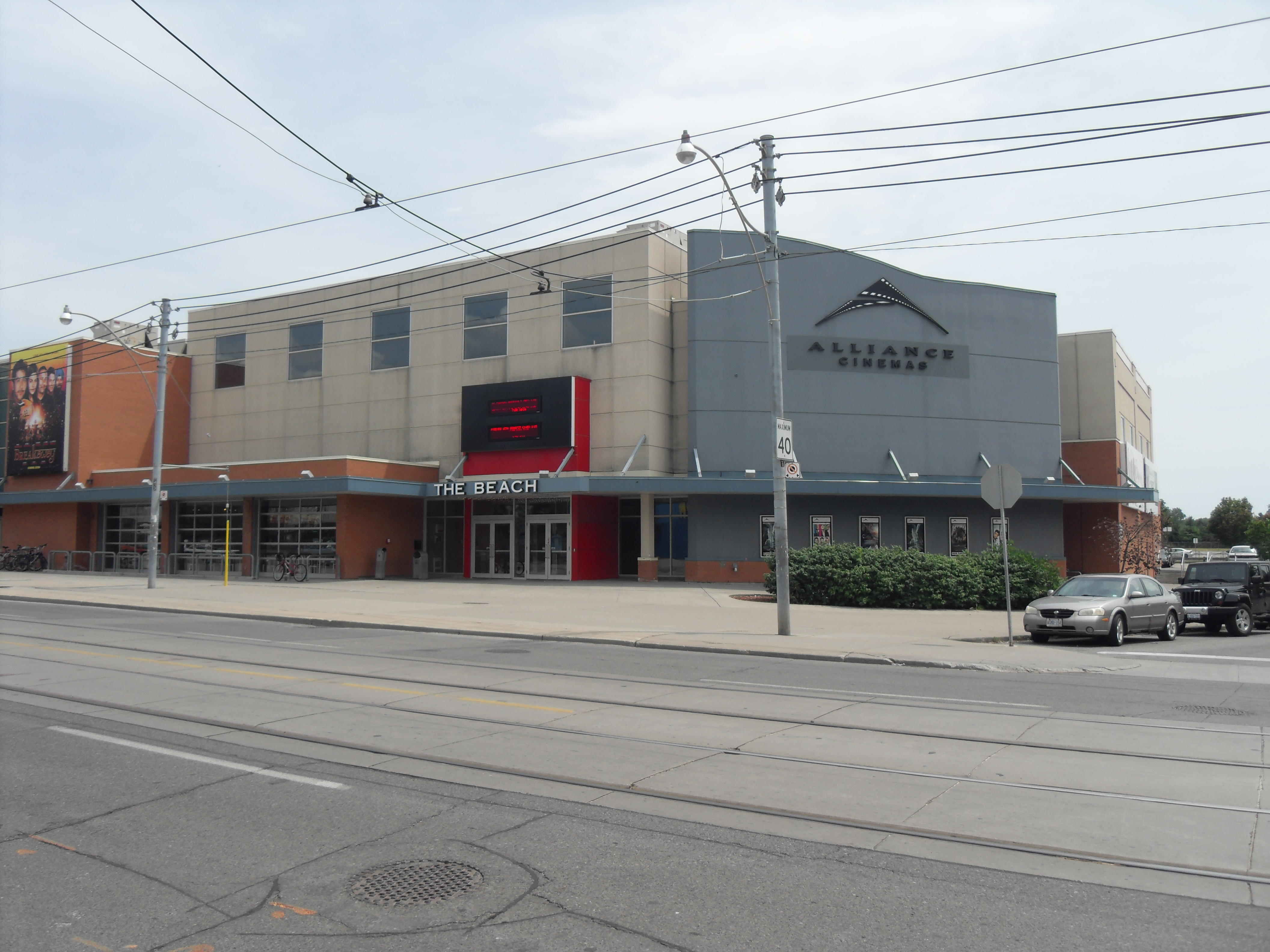 1651 Queen Street East, Toronto M4L 1G5 Opened in 1999 on the site of the old "Greenwood Race Track" More information at Cinema Treasures